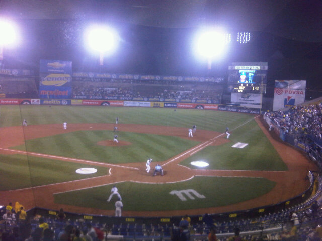 Estadio José Bernardo Pérez